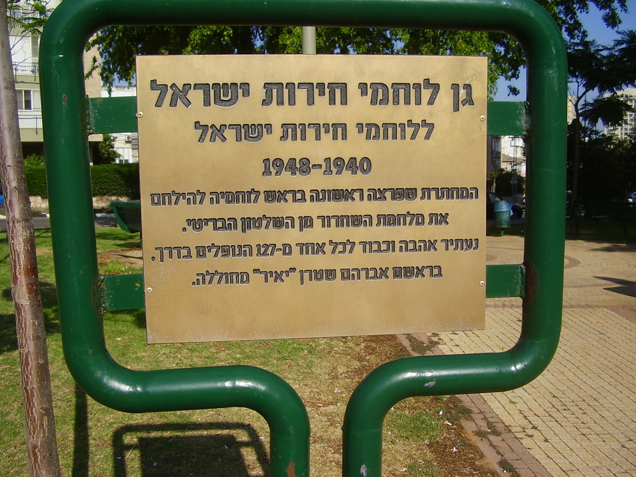 Lehi (Israel freedom fighters) in Petah Tikva, Israel